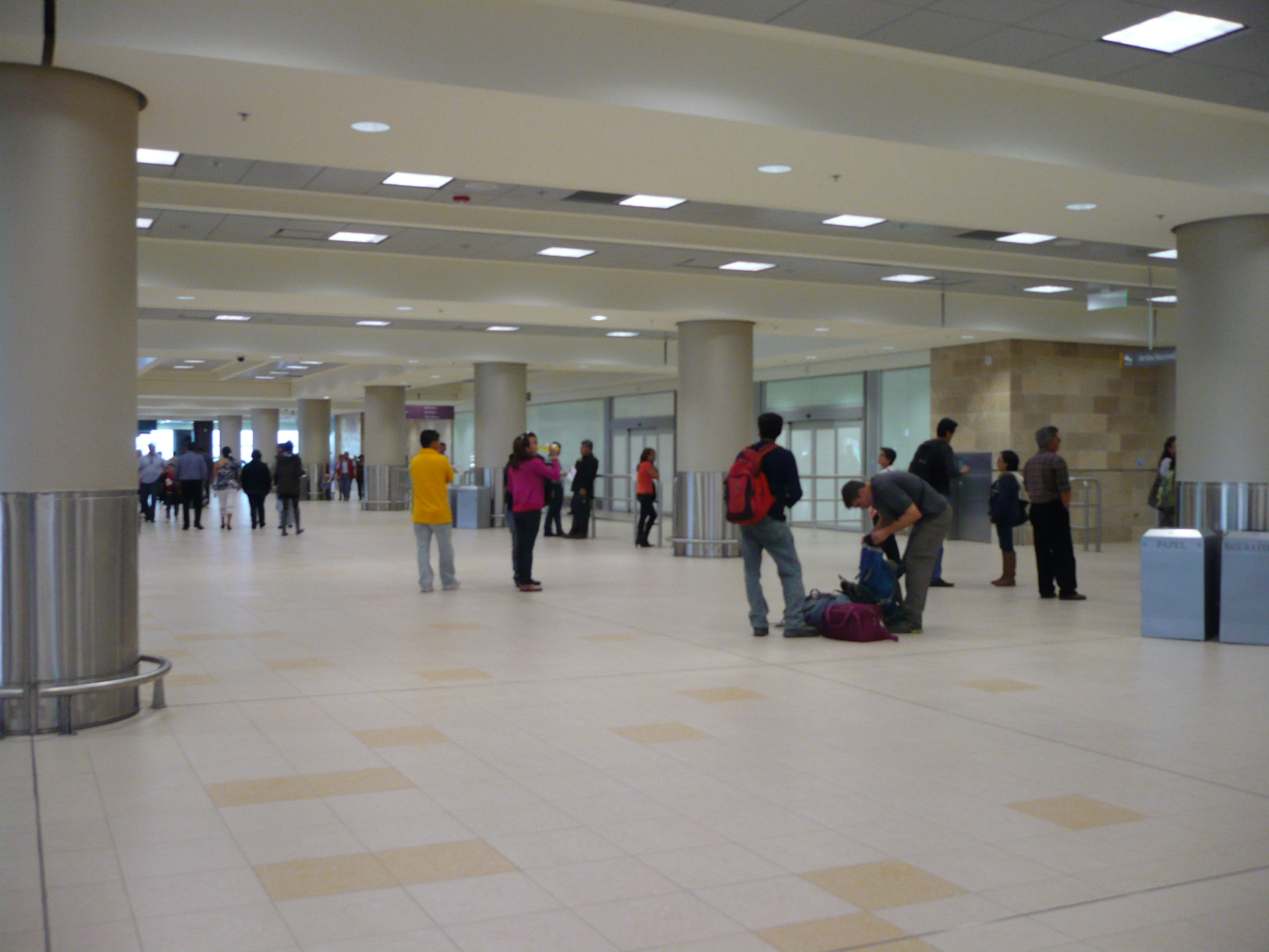 NAIQ Arrivals floor